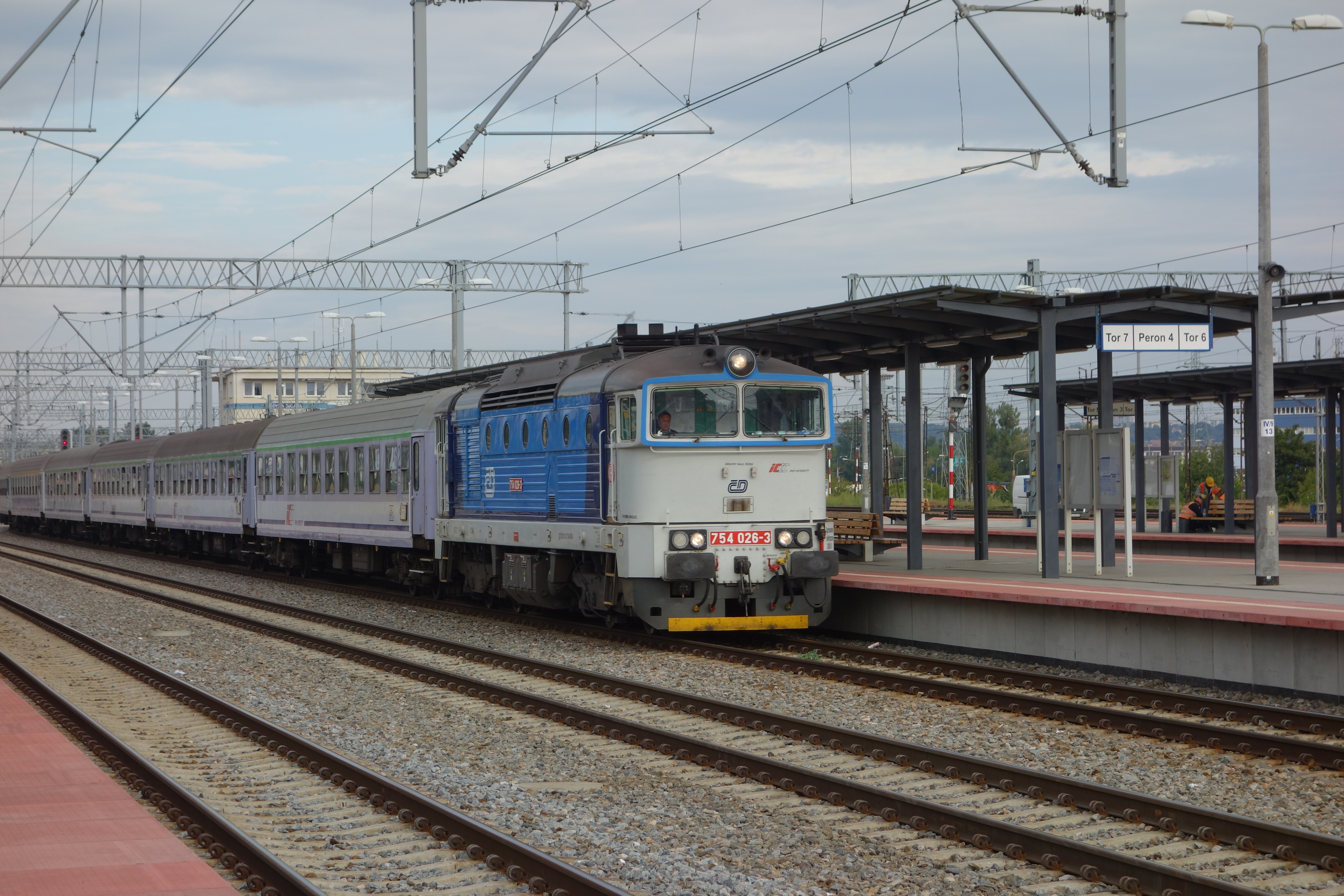 Gdynia Główna - perony This photo was taken during Railway Wikiexpedition 2014 set up by Wikimedia Polska Association in cooperation with Fundacja Grupy PKP.You can see all photographs in category Wikiekspedycja kolejowa 2014.